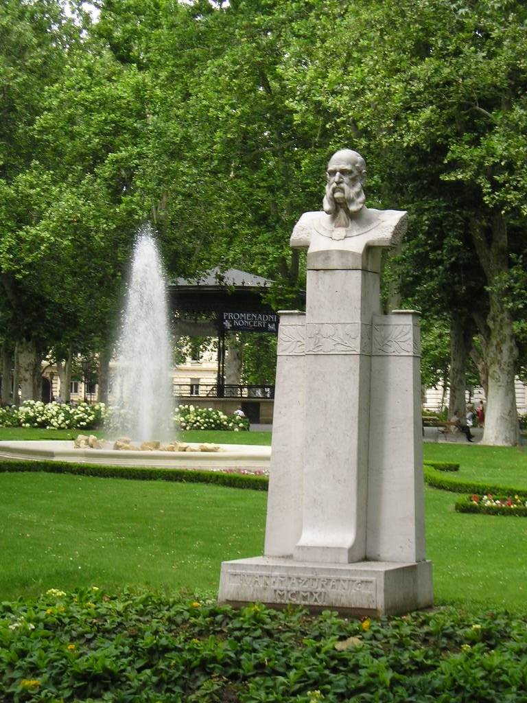 monument erected for Ivan Mažuranić in the Zrinjevac park in Zagreb